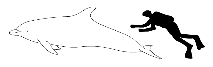 Size comparison of an average human against the Bottlenose dolphin